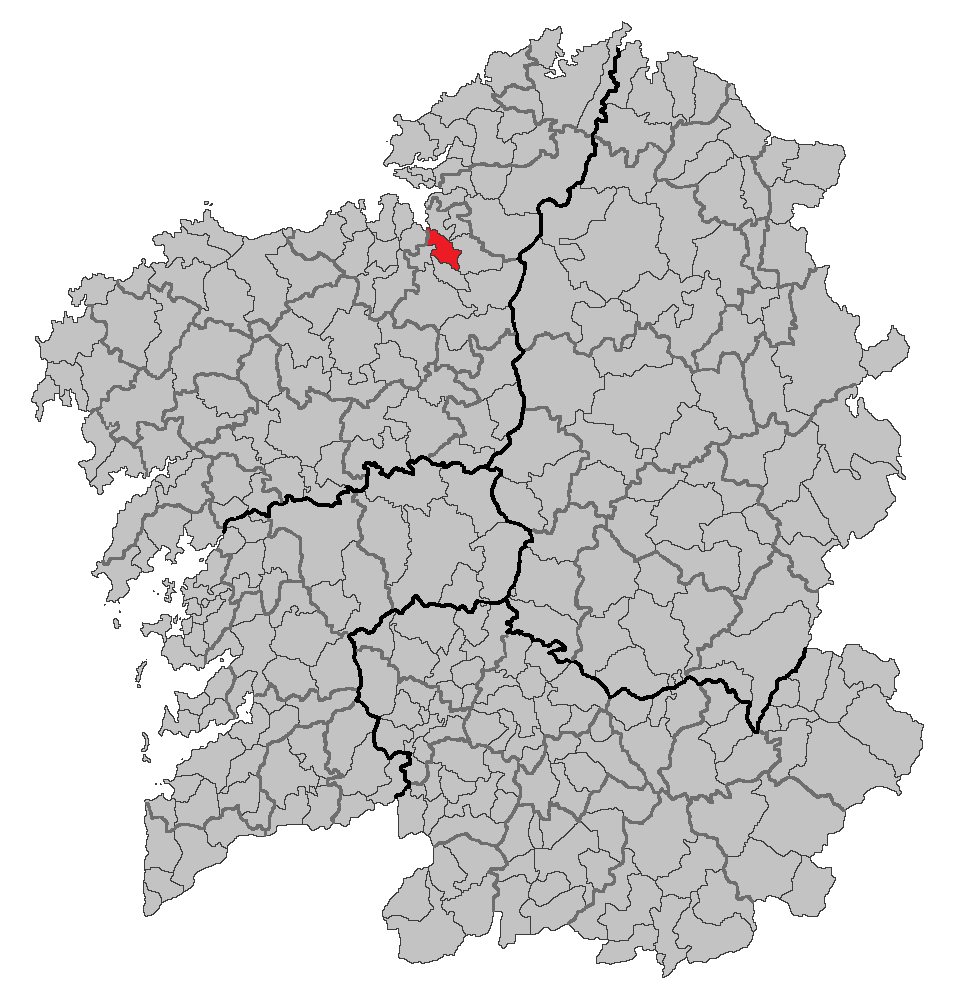 Location map of Paderne, A Coruña, Galicia